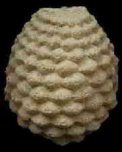 Pine Cone finial of pillar grave "Vicus Wareswald", Saarland. Height 40 centimetres (16 in)